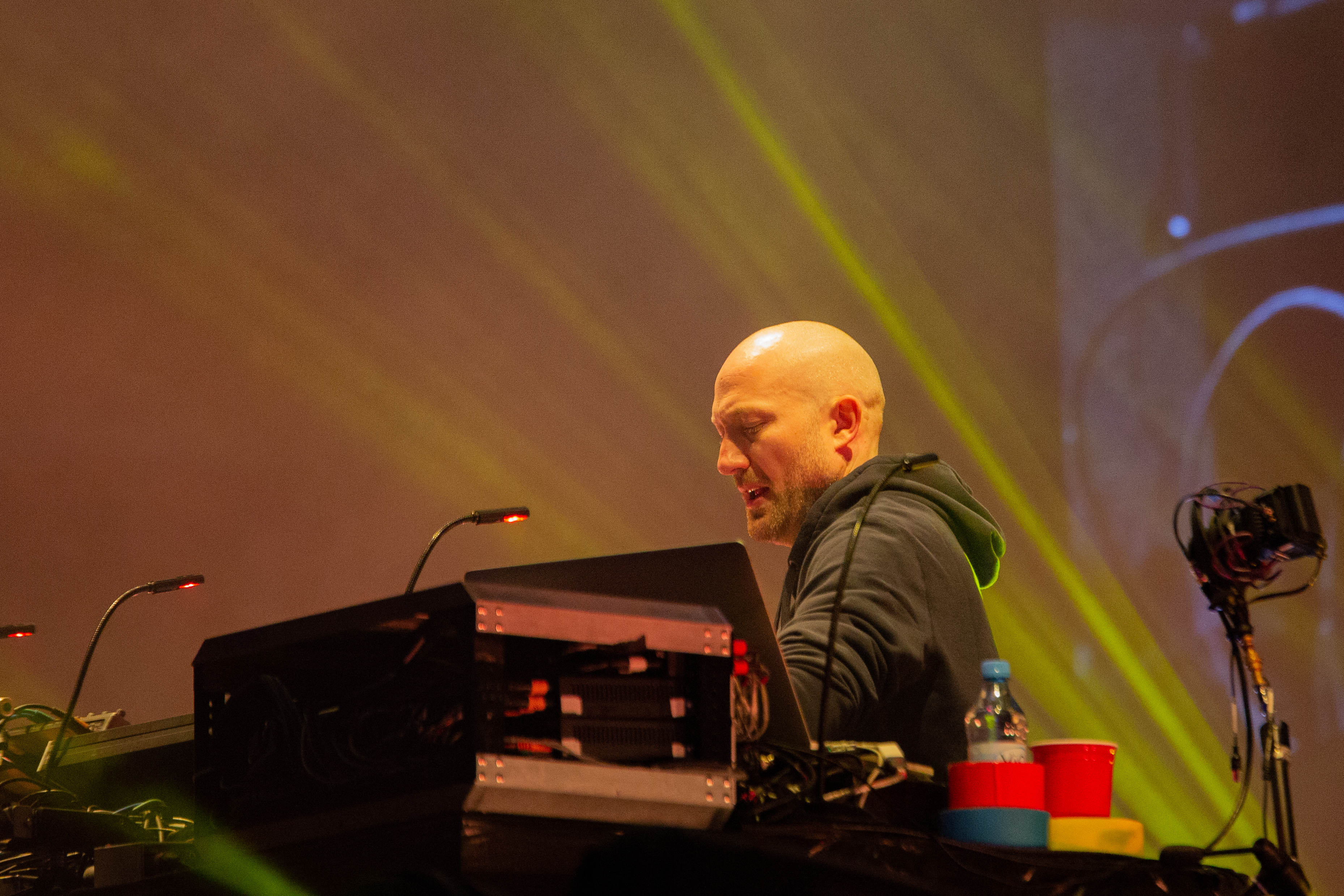 Paul Kalkbrenner at SonneMondSterne 2018, Mainstage